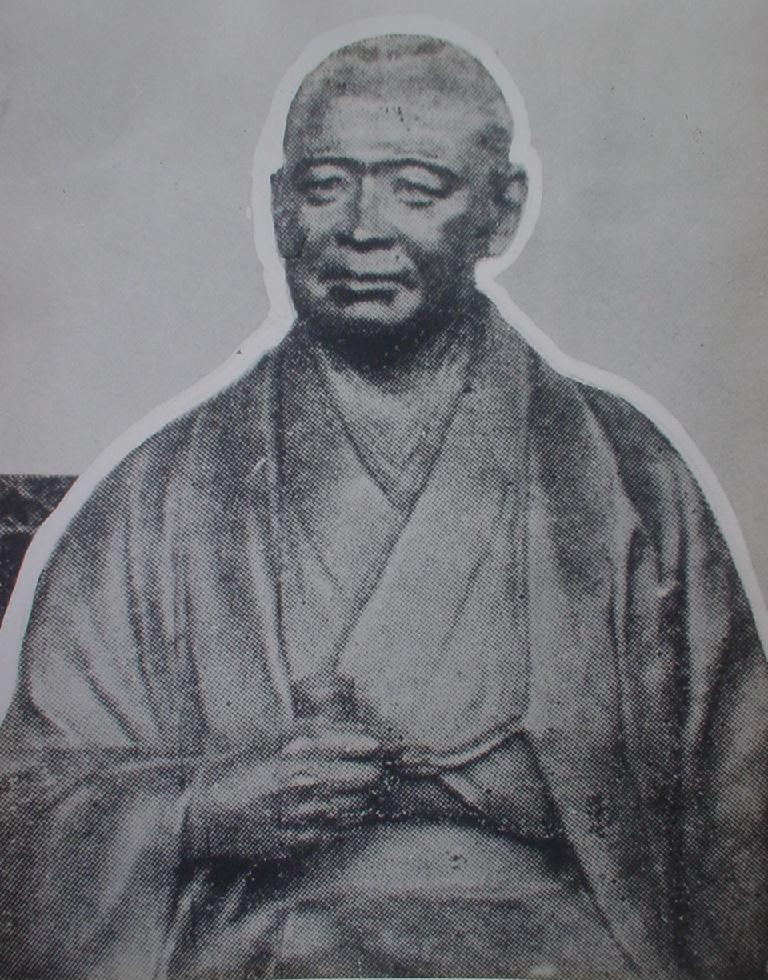 Portrait of Higashi Takusha (東澤瀉, 1832 – 1891)